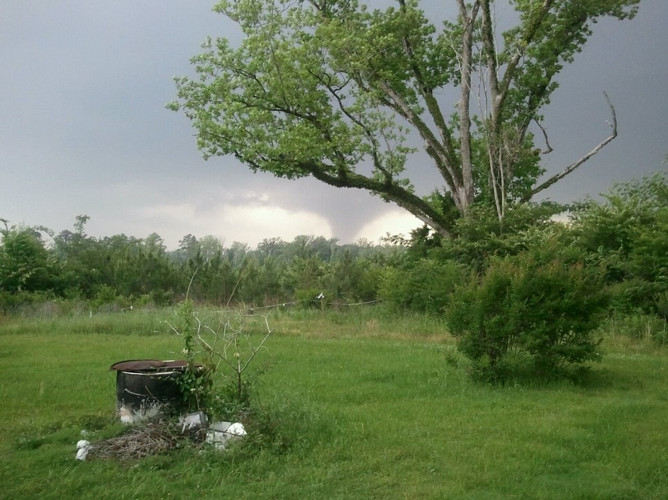 Photo of the tornado which affected Smith, Jasper and Clarke Counties in Mississippi, as well as Choctaw County in Alabama, On April 27, 2011 during the April 25–28, 2011 tornado outbreak.